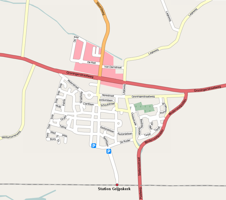 Street plan of the village of Grijpskerk in the Netherlands.